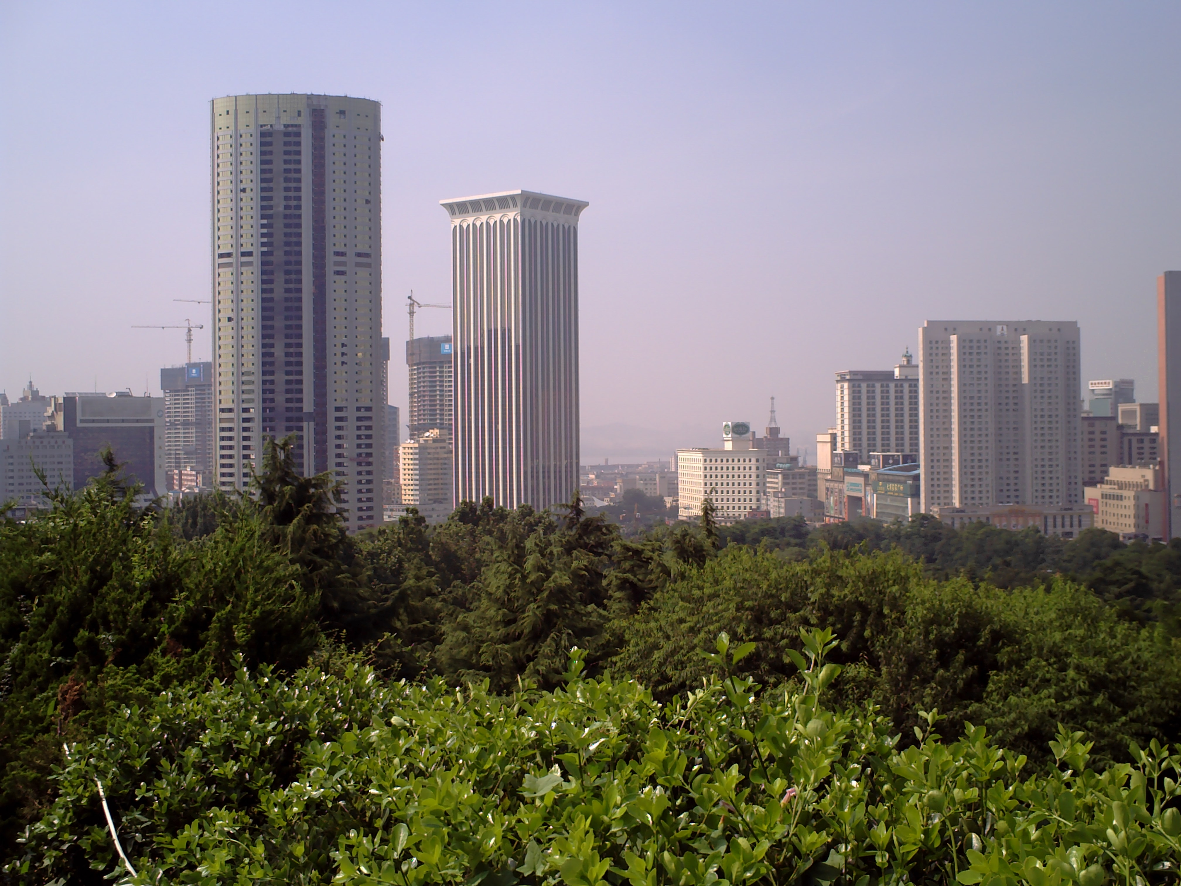 Panorama Dalian (view from the hill)